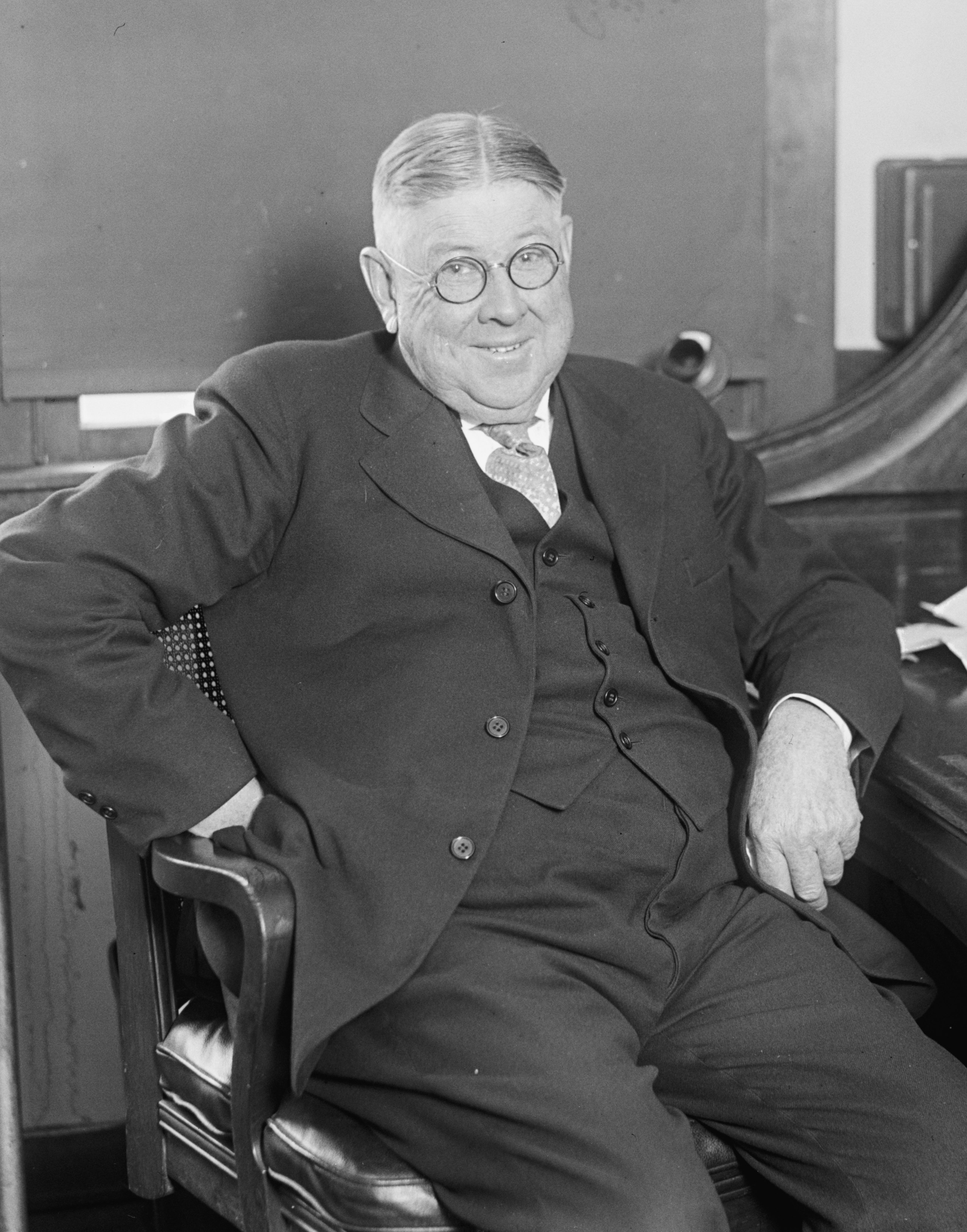 Title: Dr. A.K. Fisher, 3/13/29 Abstract/medium: 1 negative : glass ; 4 x 5 in. or smaller